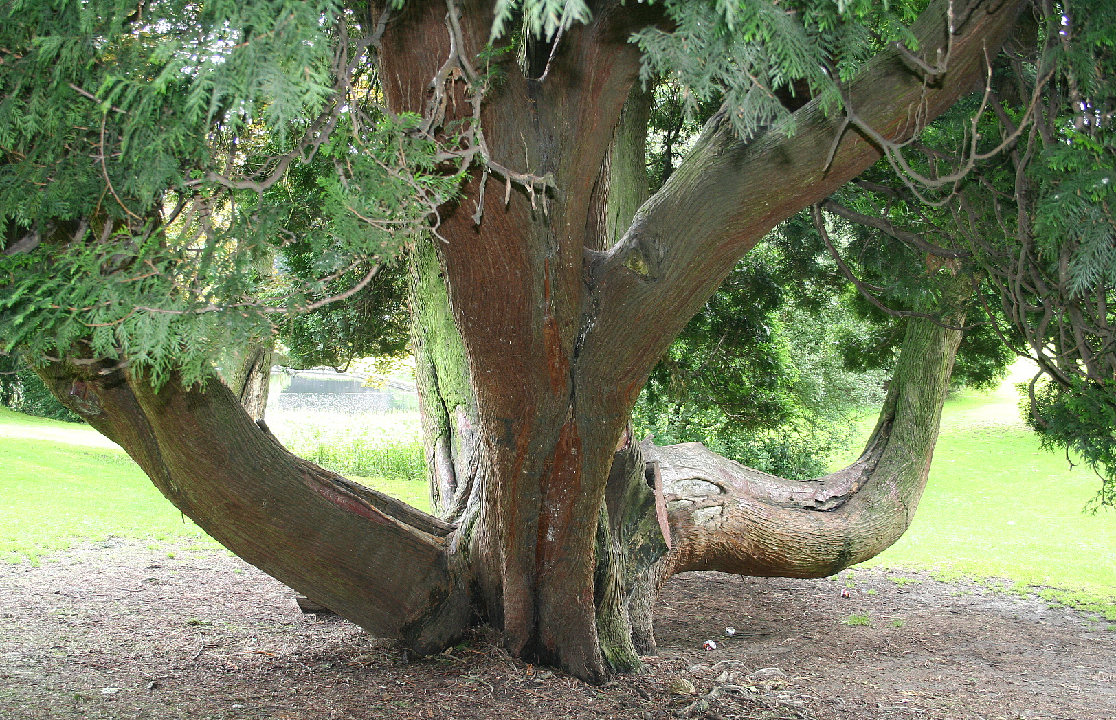 Western Redcedar.